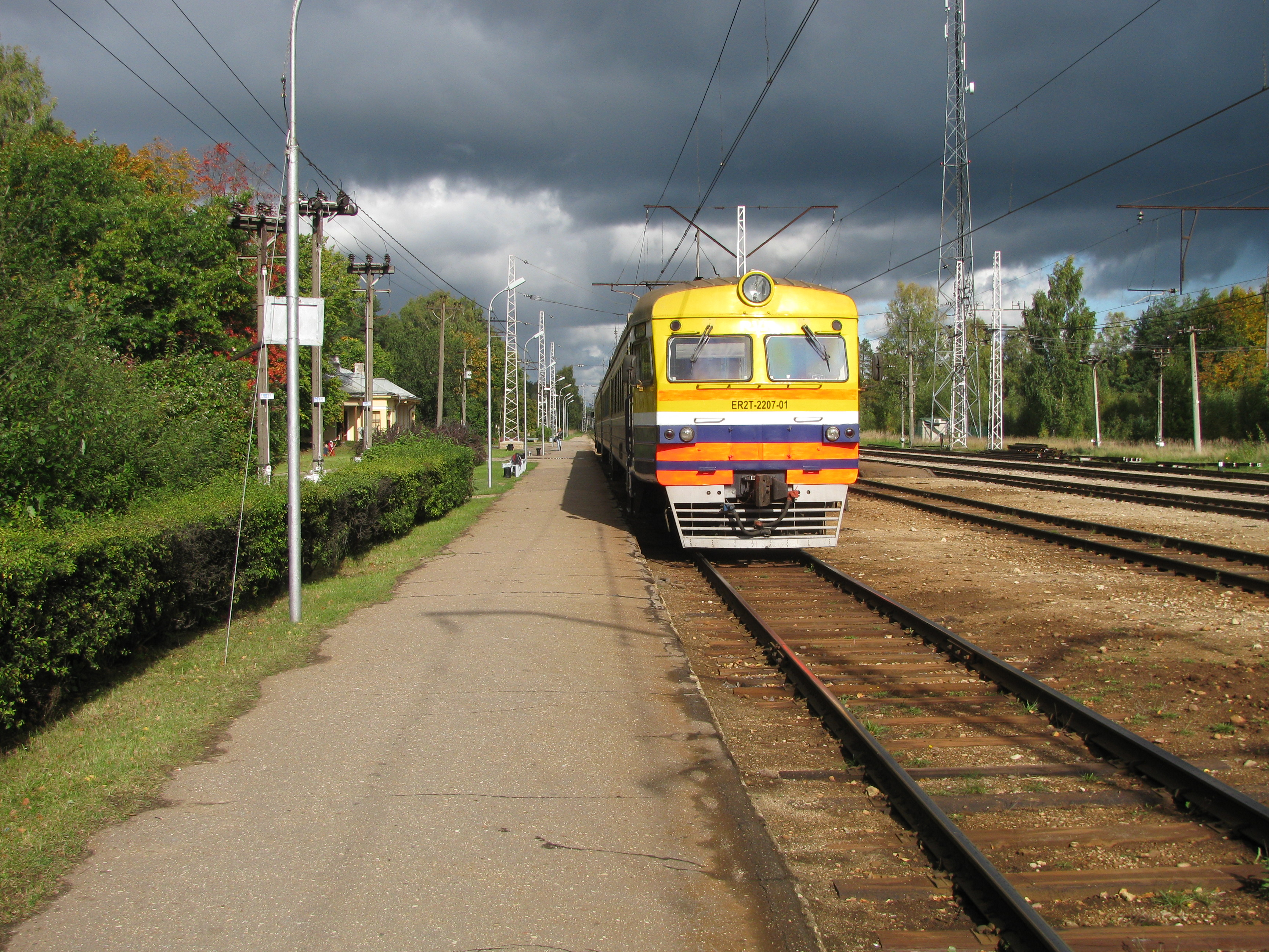 Electric unit class ER2T at Saulkrasti railway station, Latvia